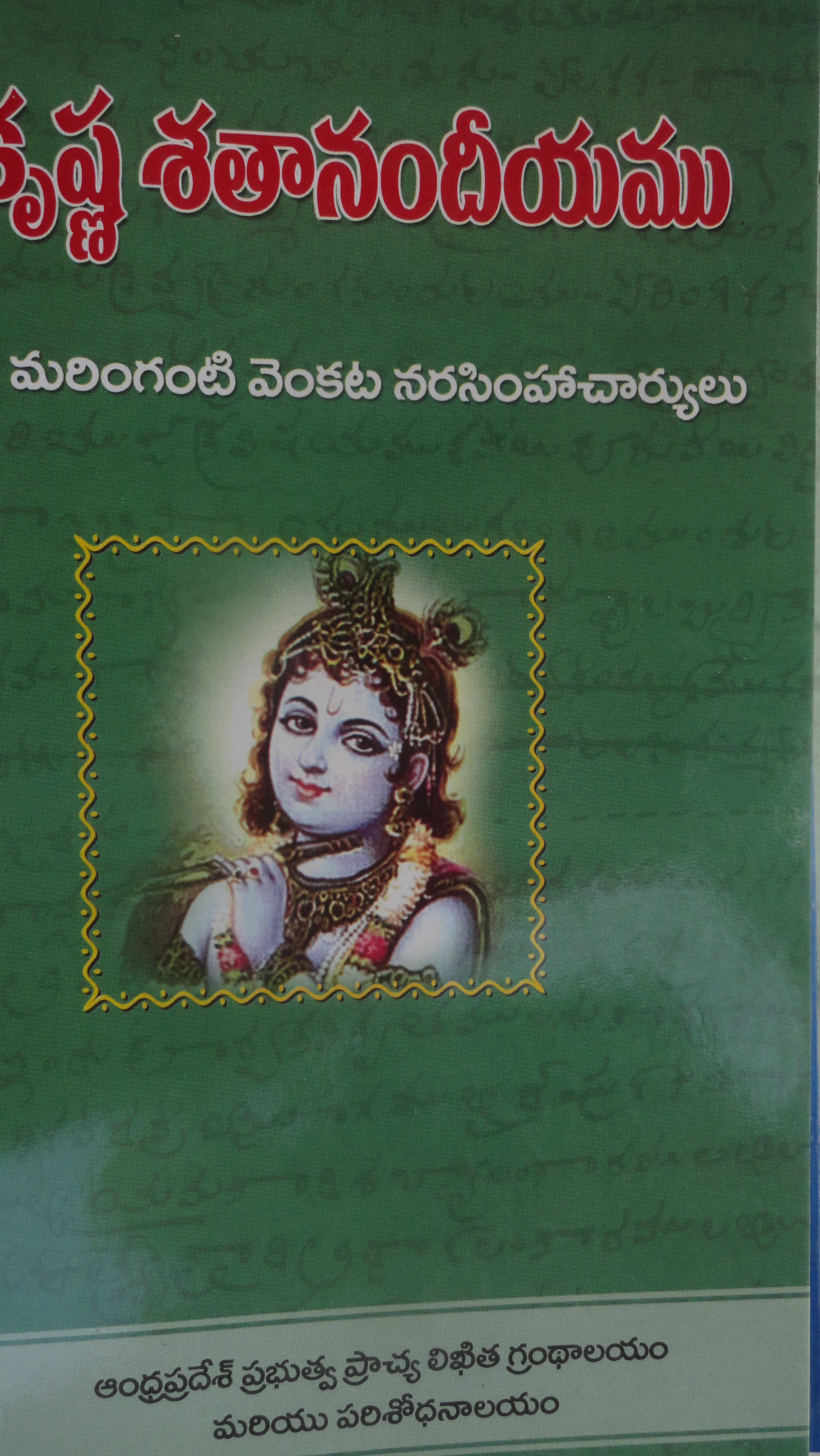 SrI krishna sataanandiyamu book